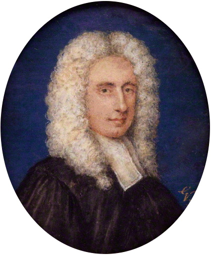 Maurice Johnson (1688-1755), watercolour, vellum, 1731